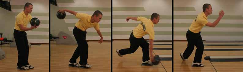 bowling